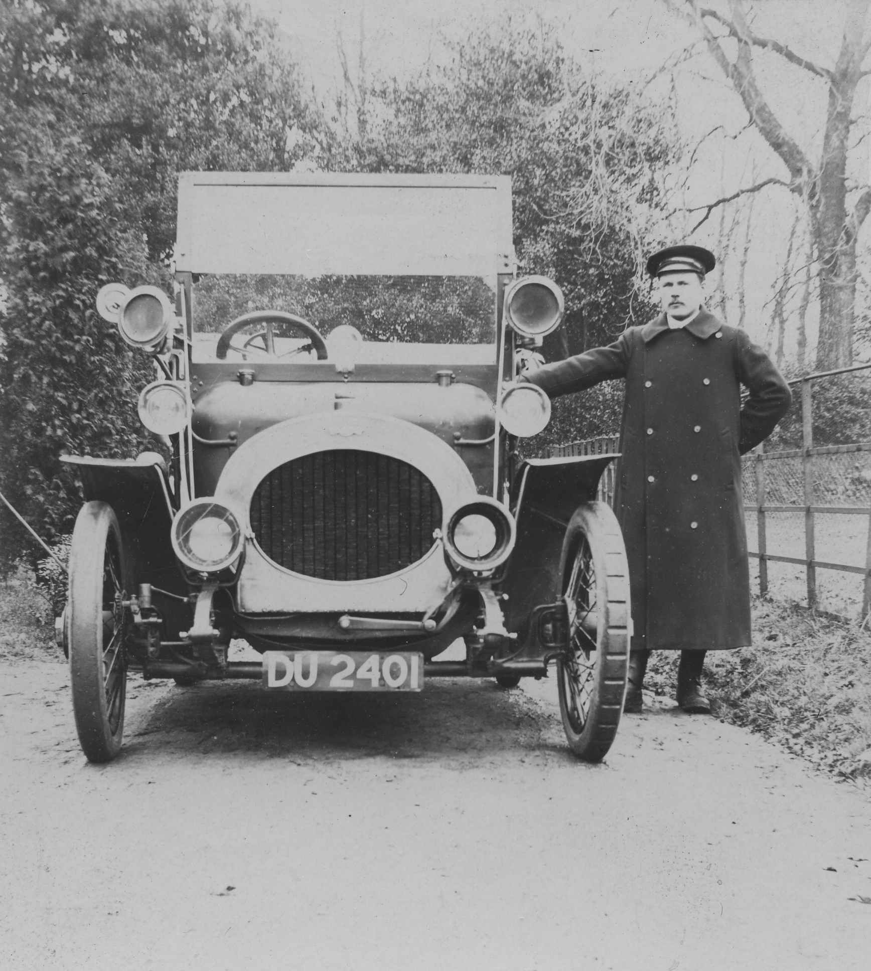 Riley car owned by William Beveridge, with Blackwell. IMAGELIBRARY/1154 Persistent URL